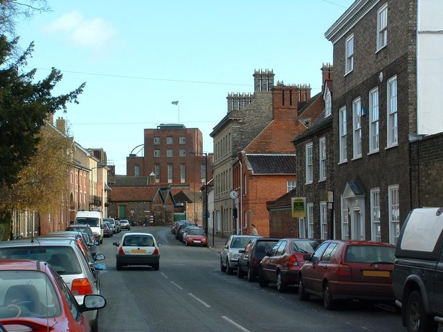 Westgate Street Bury St.Edmunds Looking west along Westgate street Bury St.Edmunds Suffolk. The large building is part of the Greene King Brewery.